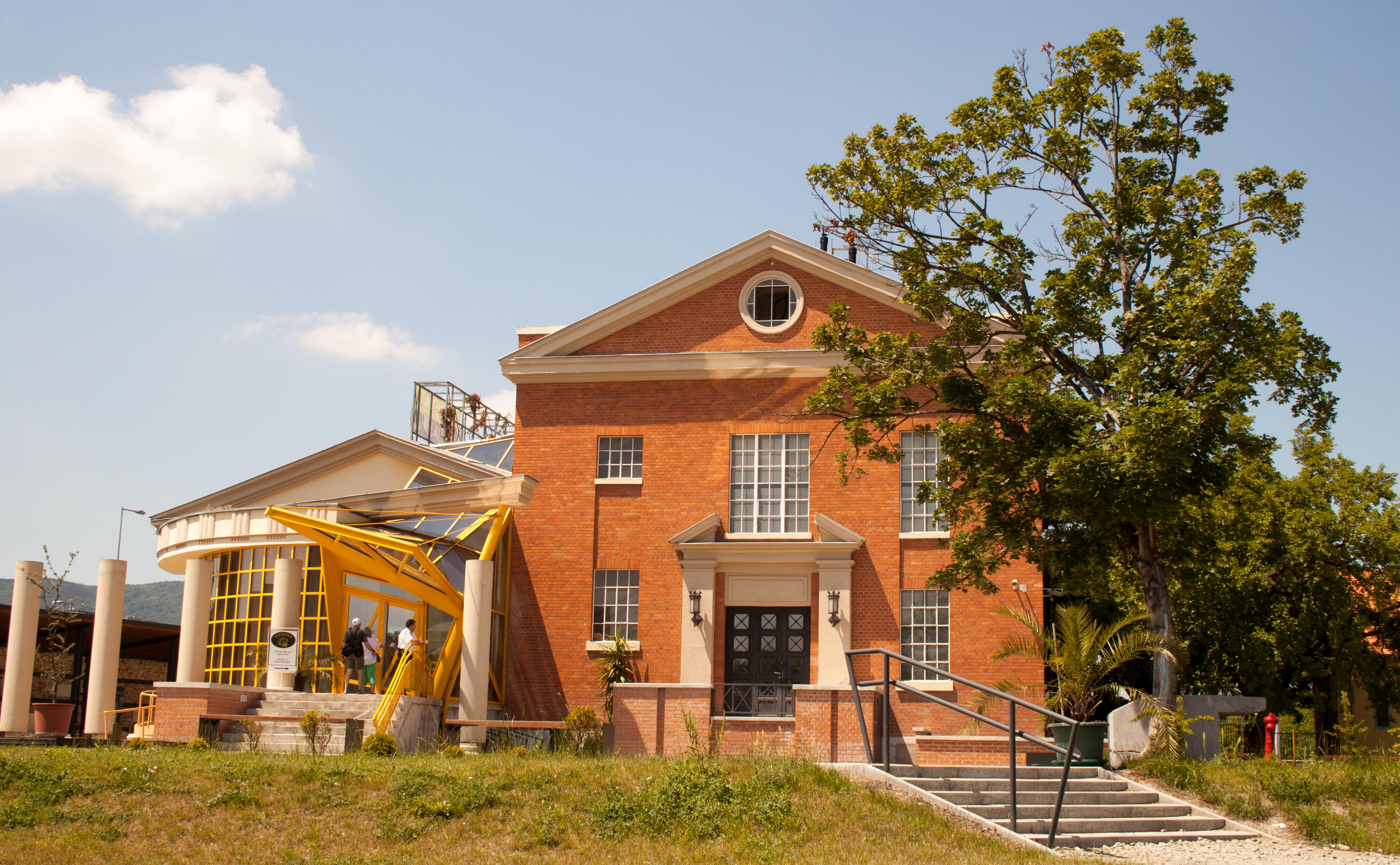 Main building of the Aquincum Museum